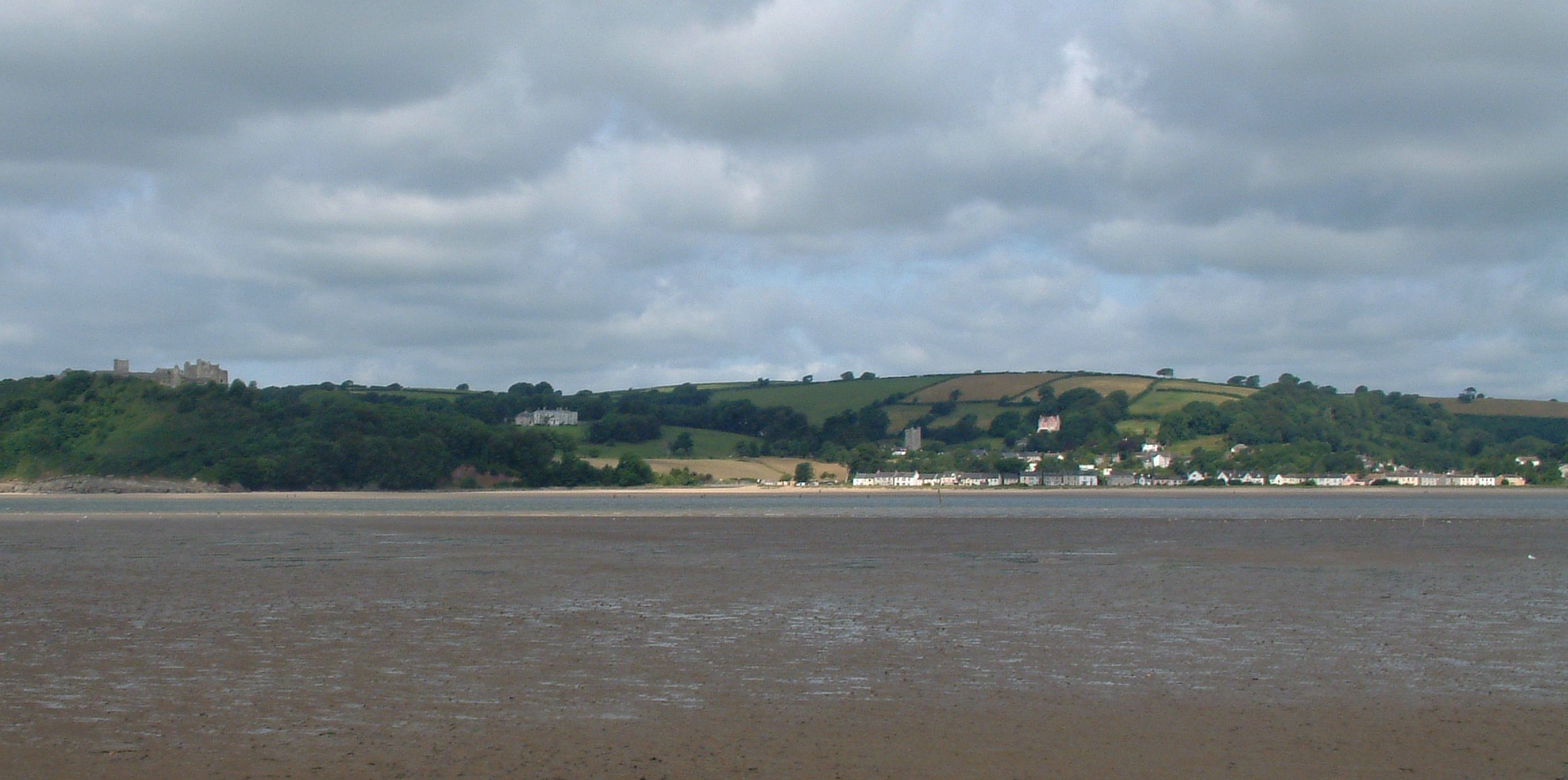 A view of Llansteffan from Ferryside.